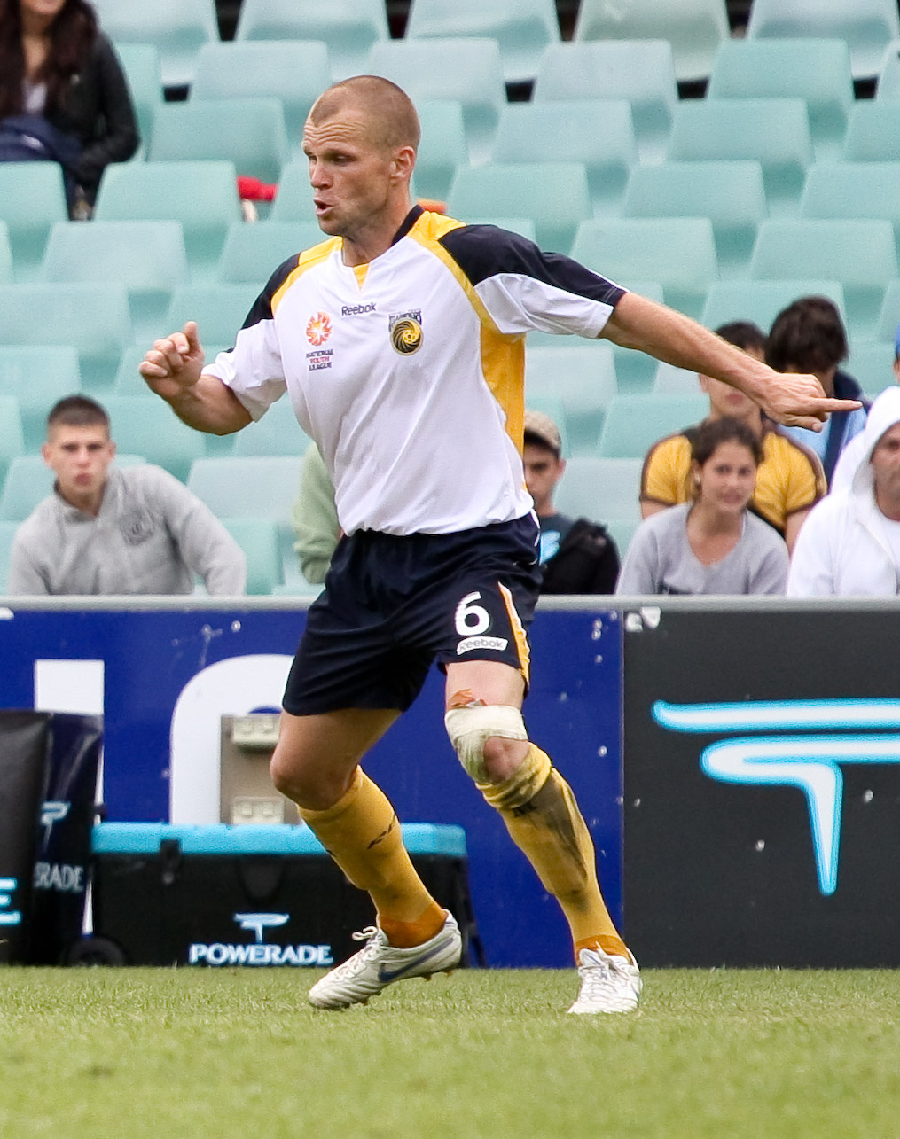 André Gumprecht playing for the Central Coast Mariners Youth team against Sydney FC Youth.